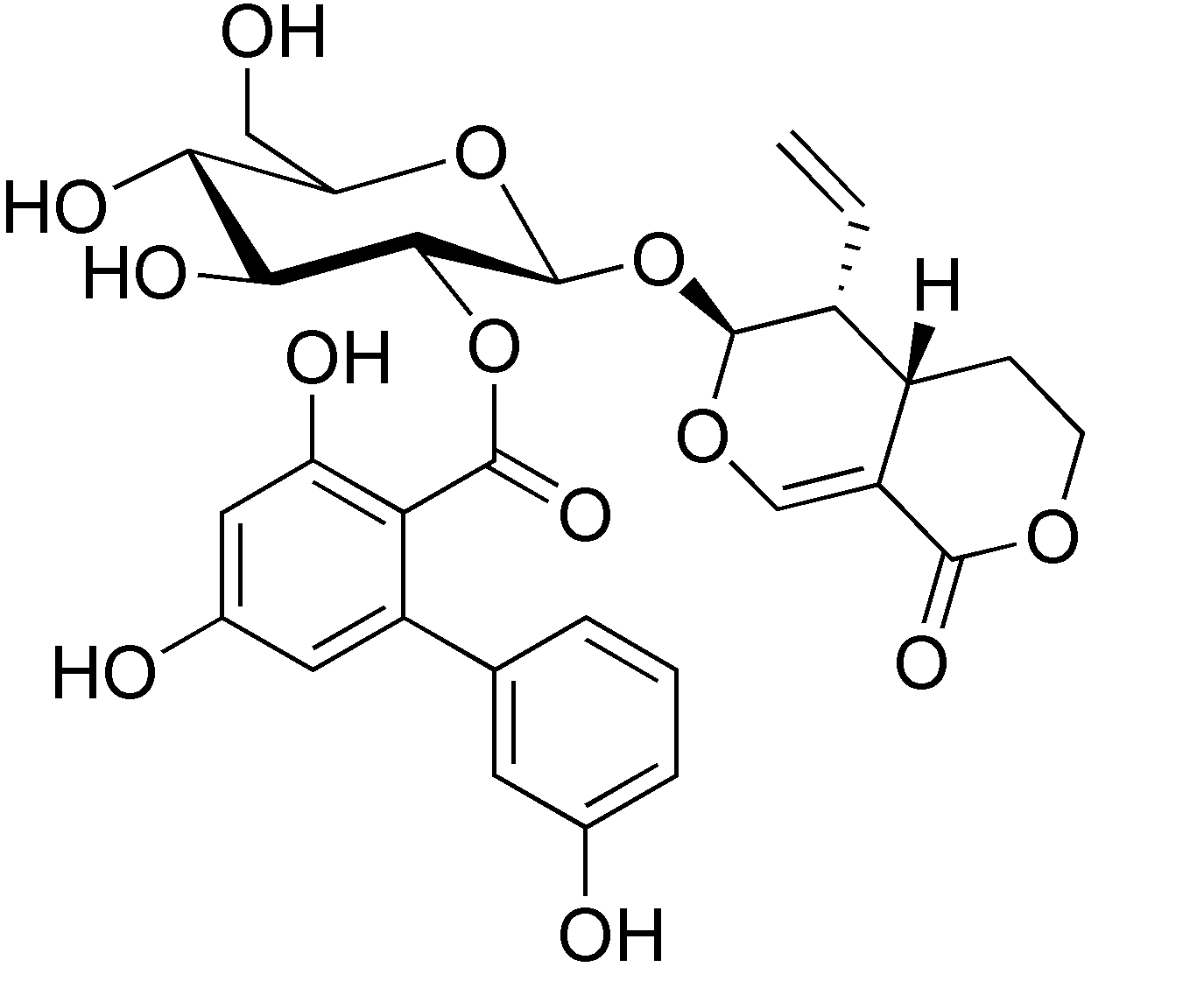 Chemical structure of amarogentin